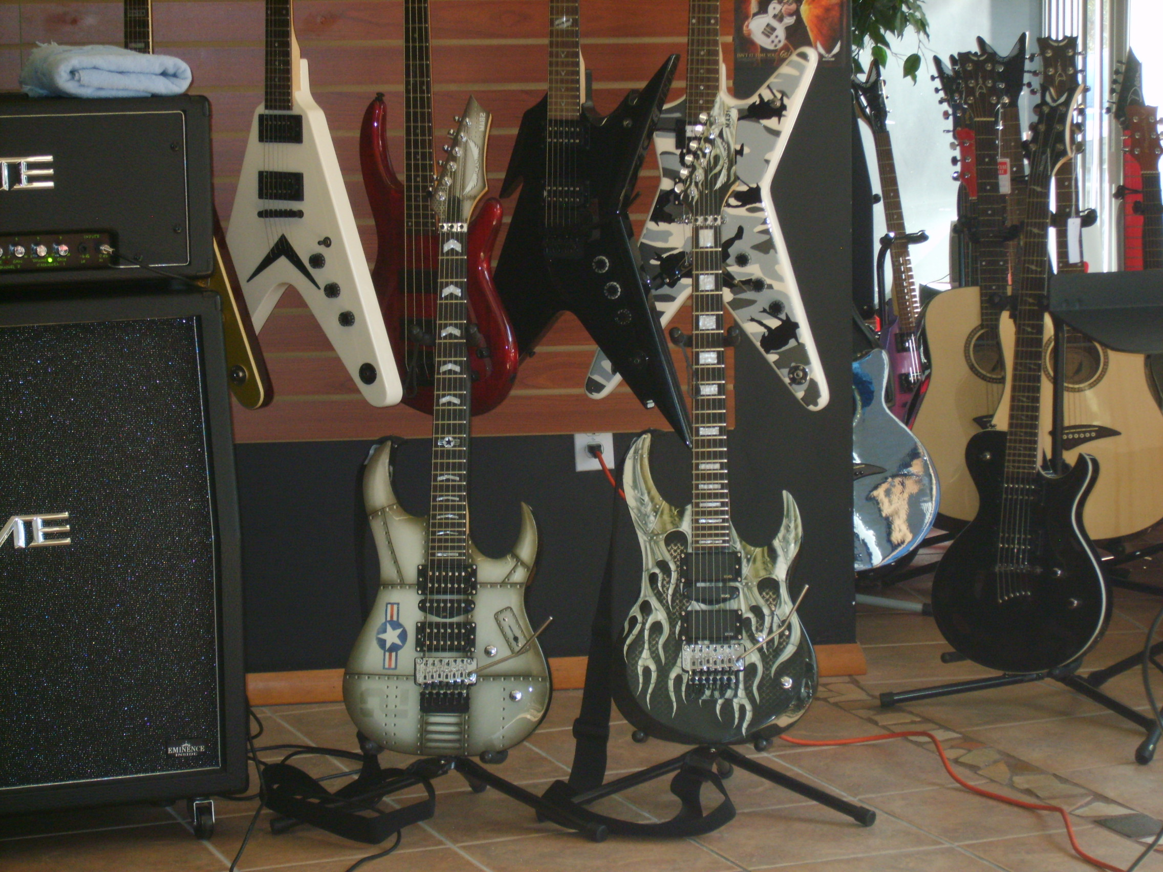 Two of Michael Angelo Batio's signature guitars: The MAB 2 Aviator, and the MAB 1 Armorflame. The guitars sold in stores are no different than the ones MAB uses in the studio, his instructional DVDs, and in formal concert situations. Dean MAB 2 Aviator Dean MAB 1 Armorflame